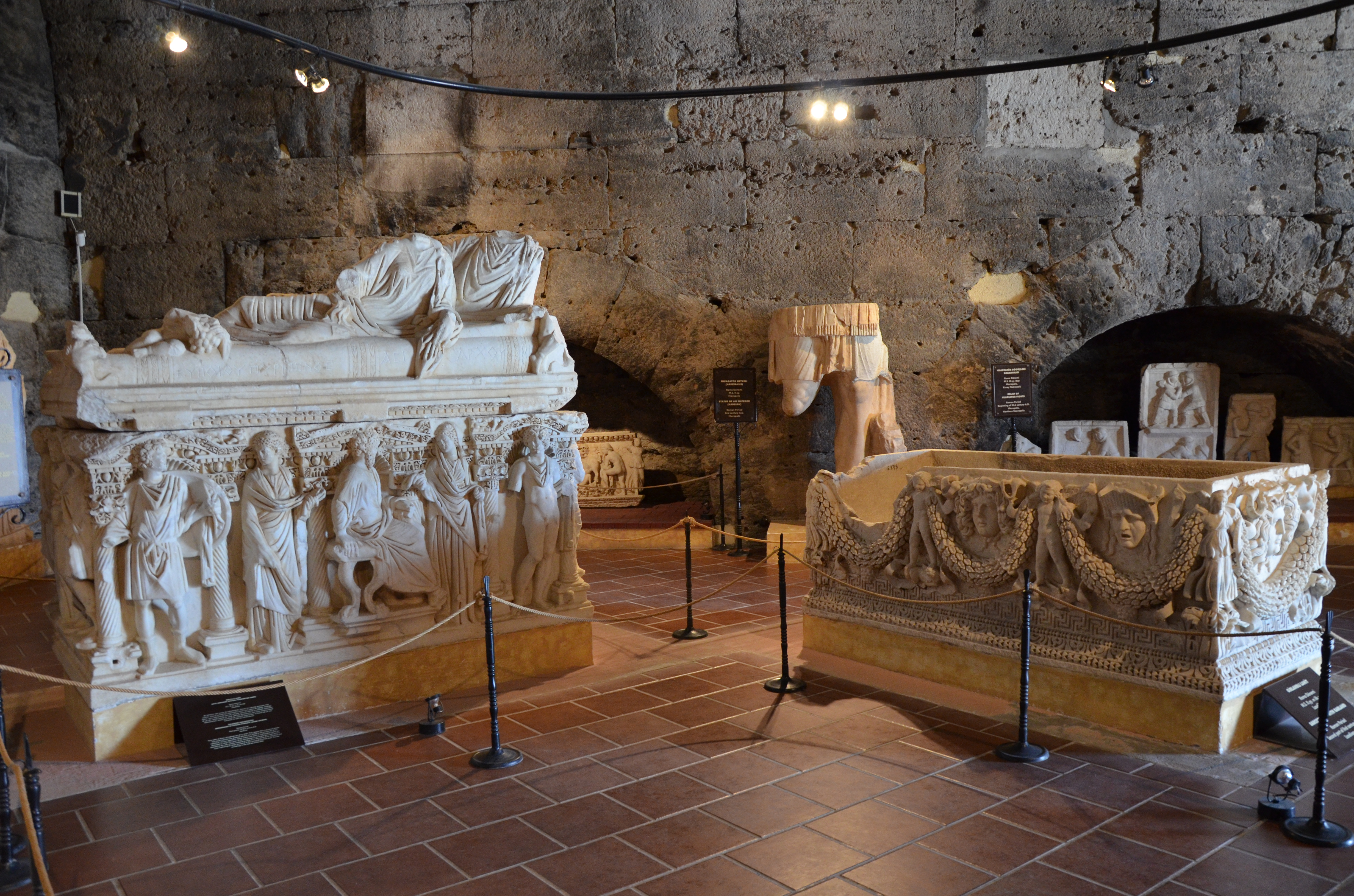 Hierapolis Archaeology Museum, Turkey